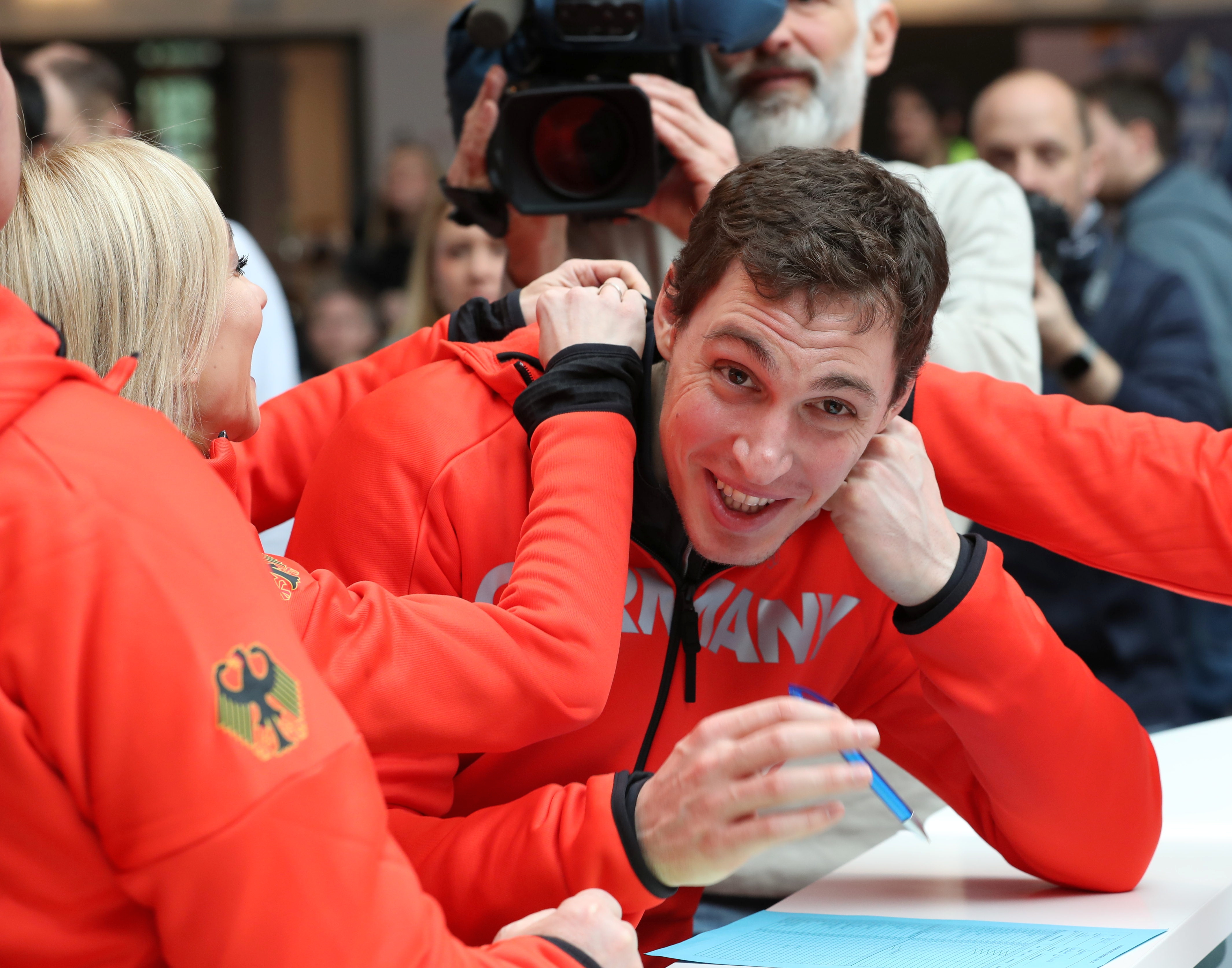 Investiture of the German team for Winter Olympics 2018 in Pyeonchang: Bruno Massot